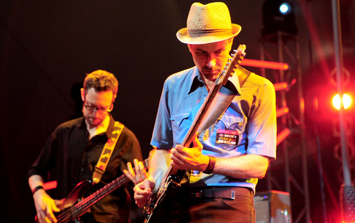 Perth International Arts Festival 2010